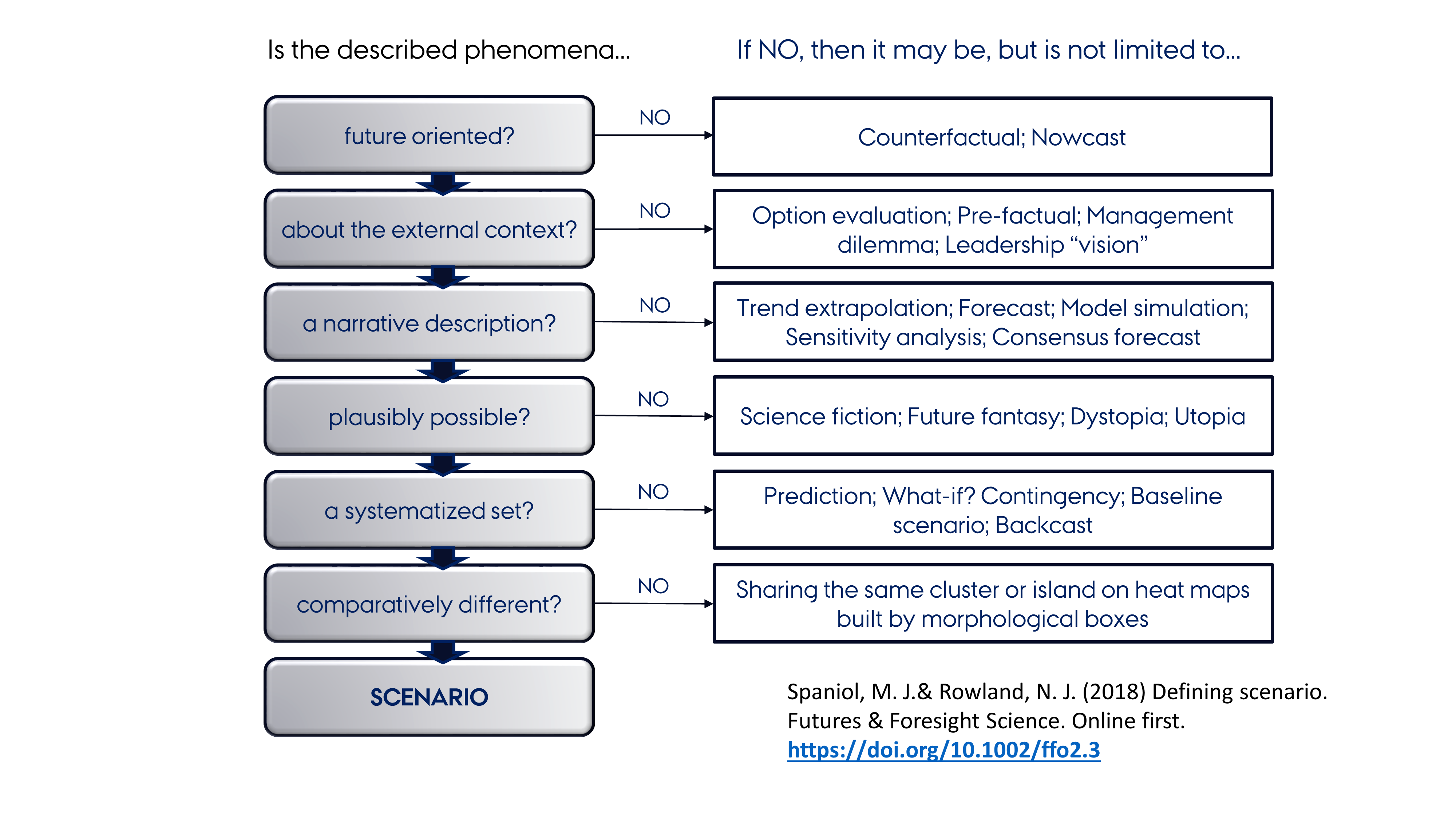 Process for classifying a phenomena as a scenario in the Intuitive Logics tradition.